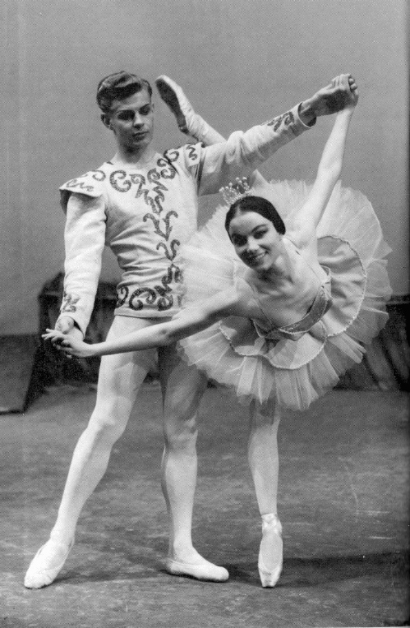 Photograph of the Finnish ballet dancers Martti Vanhanen (1937–) and Arja Nieminen (1943–) in roles for Sininen helmi by Erkki Melartin